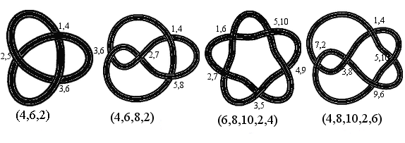 first nodes at 3, 4 and 5 crosses with Dowker code